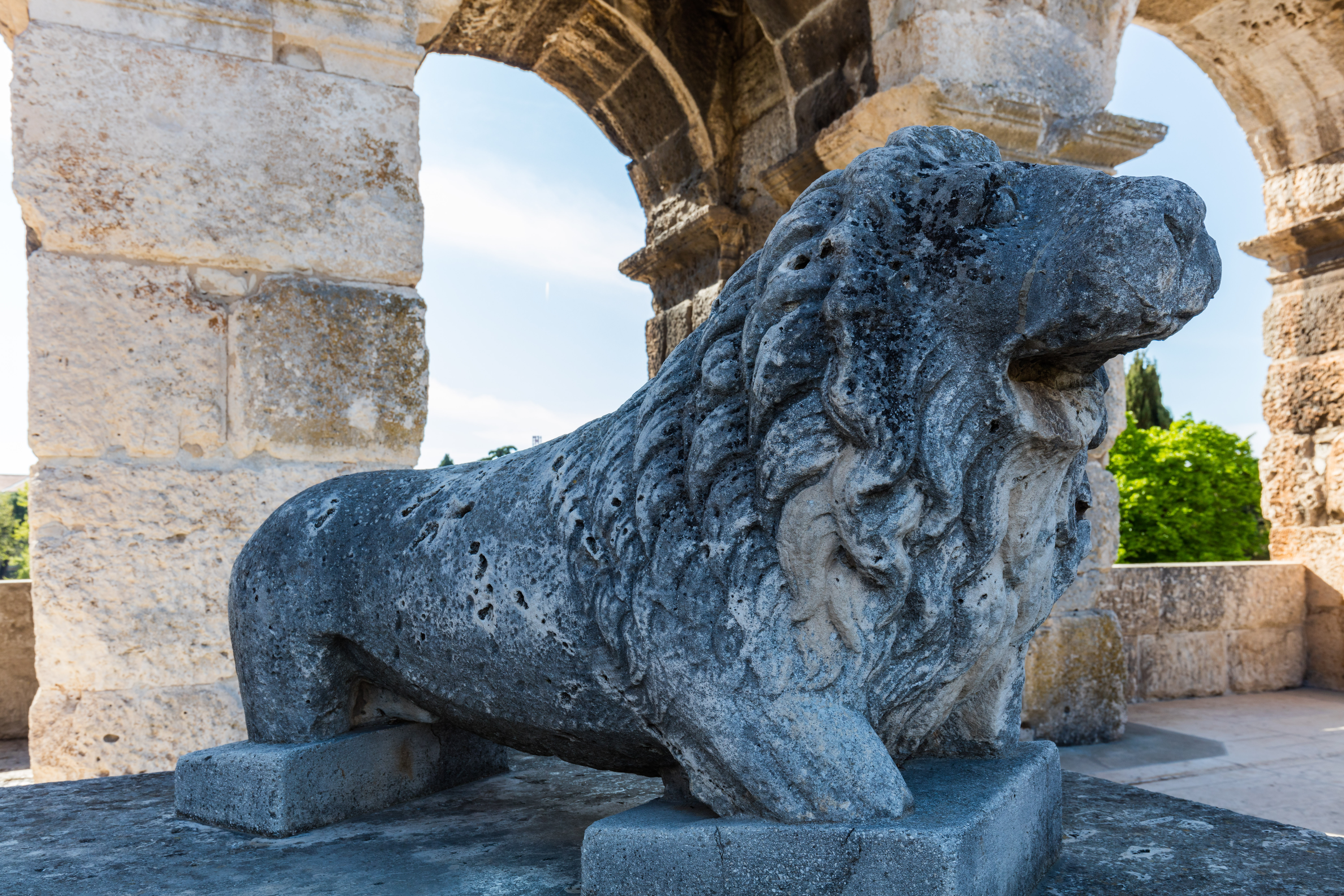 Stone lion, Pula amphitheatre, Croatia. This is a a photo of a cultural heritage in Croatia with ID: Z-863